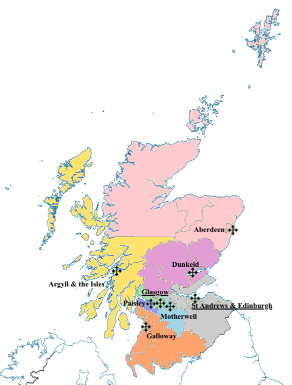 Colours indicating the Roman Catholic Dioceses of Scotland on a map of Council areas of Scotland in 2011. Grey = Archdiocese of St Andrews and Edinburgh Pink = Diocese of Aberdeen Yellow = Diocese of Argyll and the Isles Violet = Diocese of Dunkeld Orange = Diocese of Galloway Green = Archdiocese of Glasgow Light blue = Diocese of Motherwell Dark Blue = Diocese of Paisley